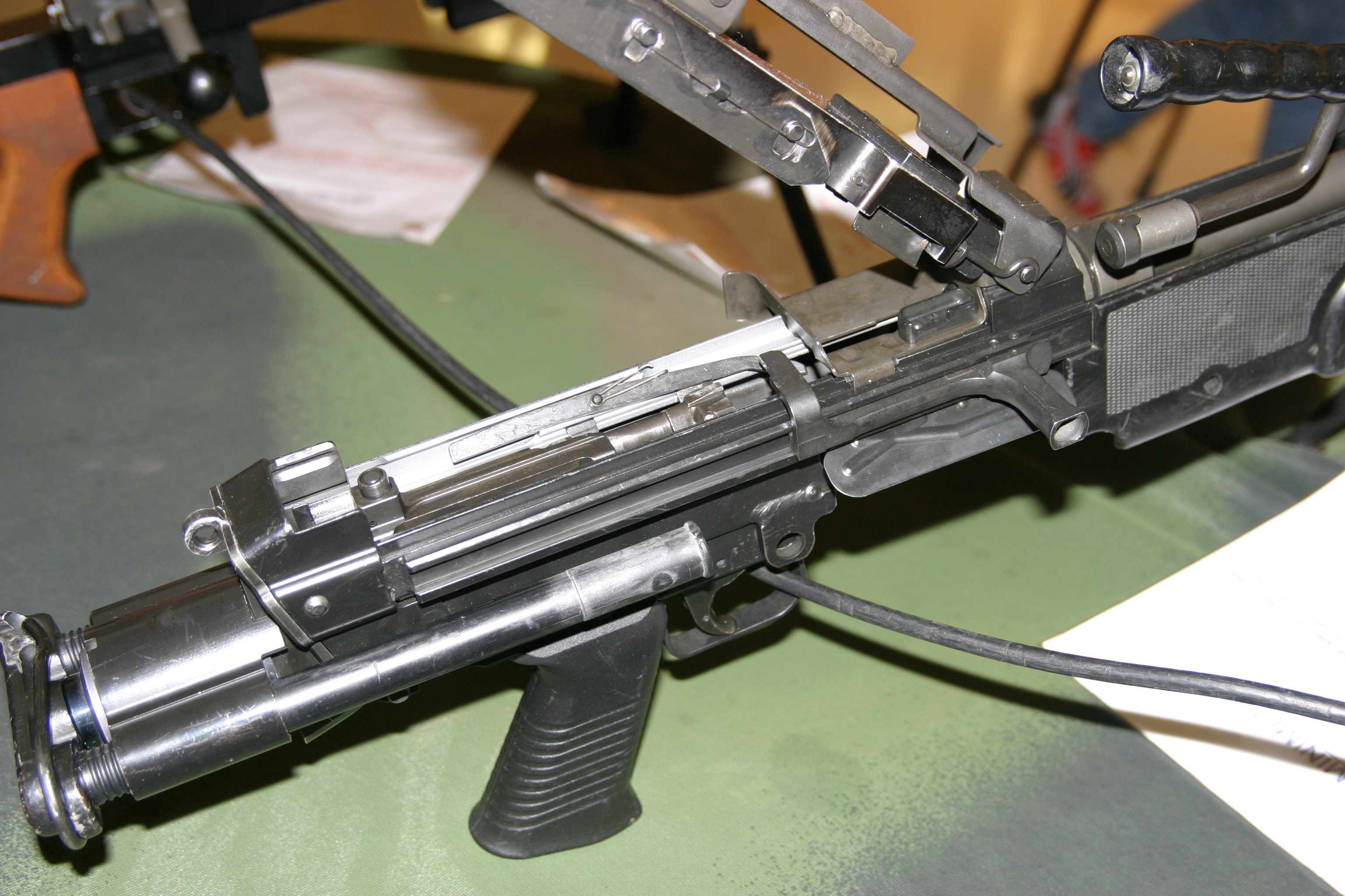 FN Minimi, light machine gun used by the French Army